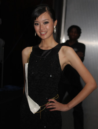 Miss China P.R. Yan Ling Mei during Miss World 08 in Johannesburg